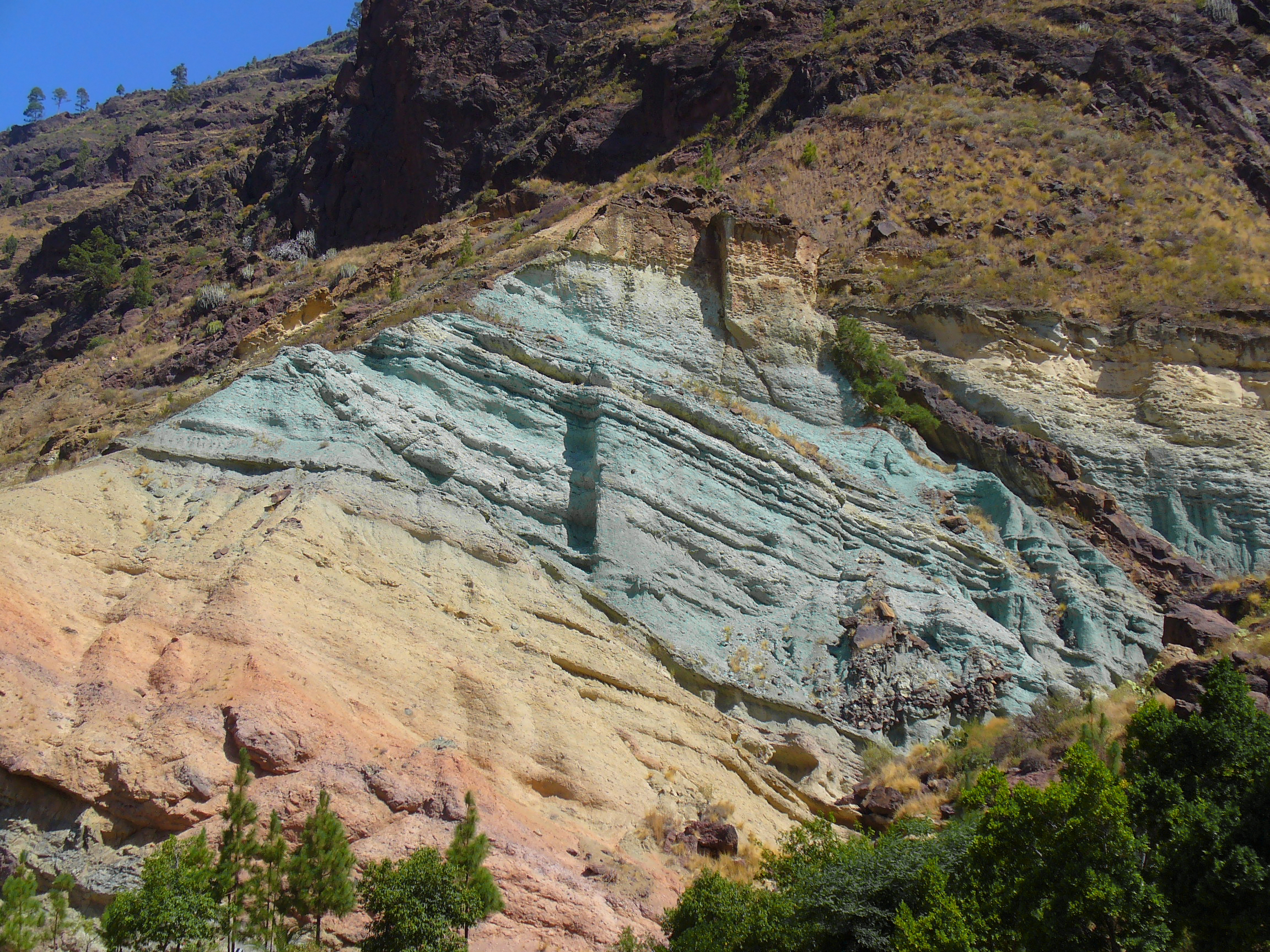 Fuente de los Azulejos, Gran Canaria, Canary Islands, Spain.